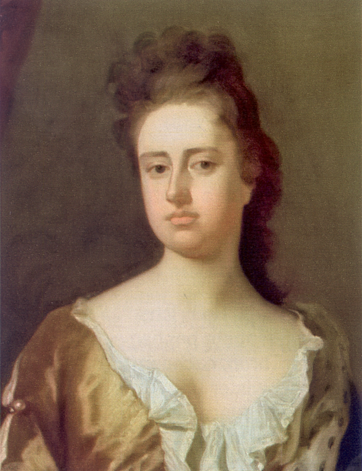 Portrait of Anne of Great Britain